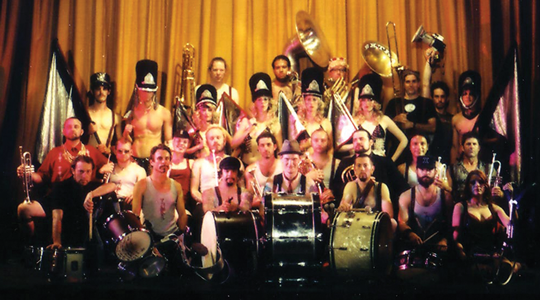 The Extra Action Marching Band at the Asbury Park Lanes